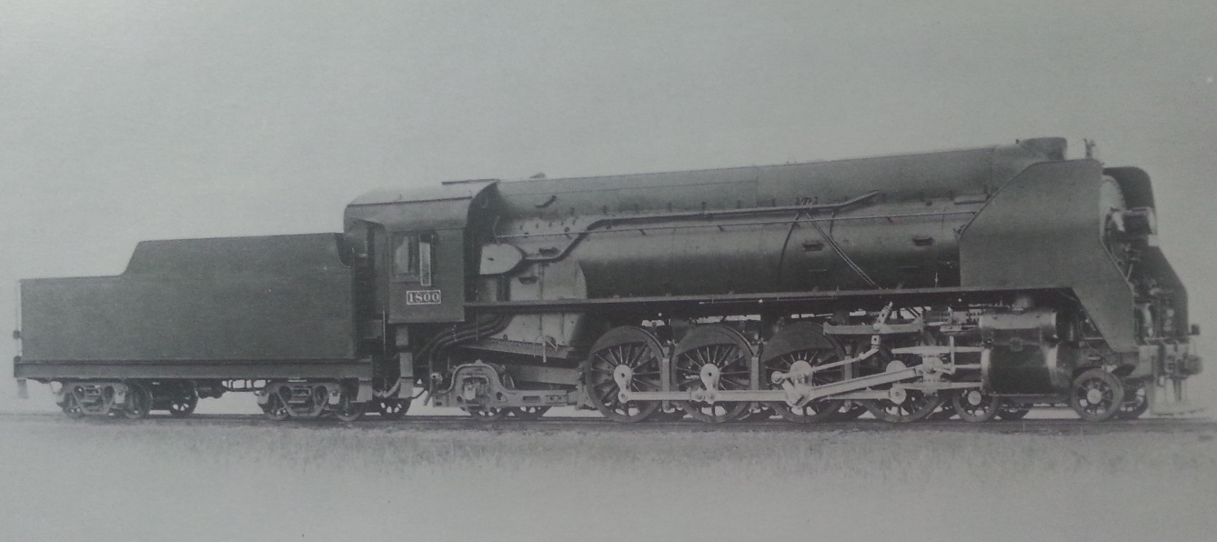 Builder's photo of South Manchuria Railway locomotive Matei-1800.